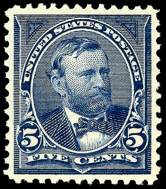 US Postage stamp: Ulysses S. Grant, Issue of 1898, 5c, ultramarine